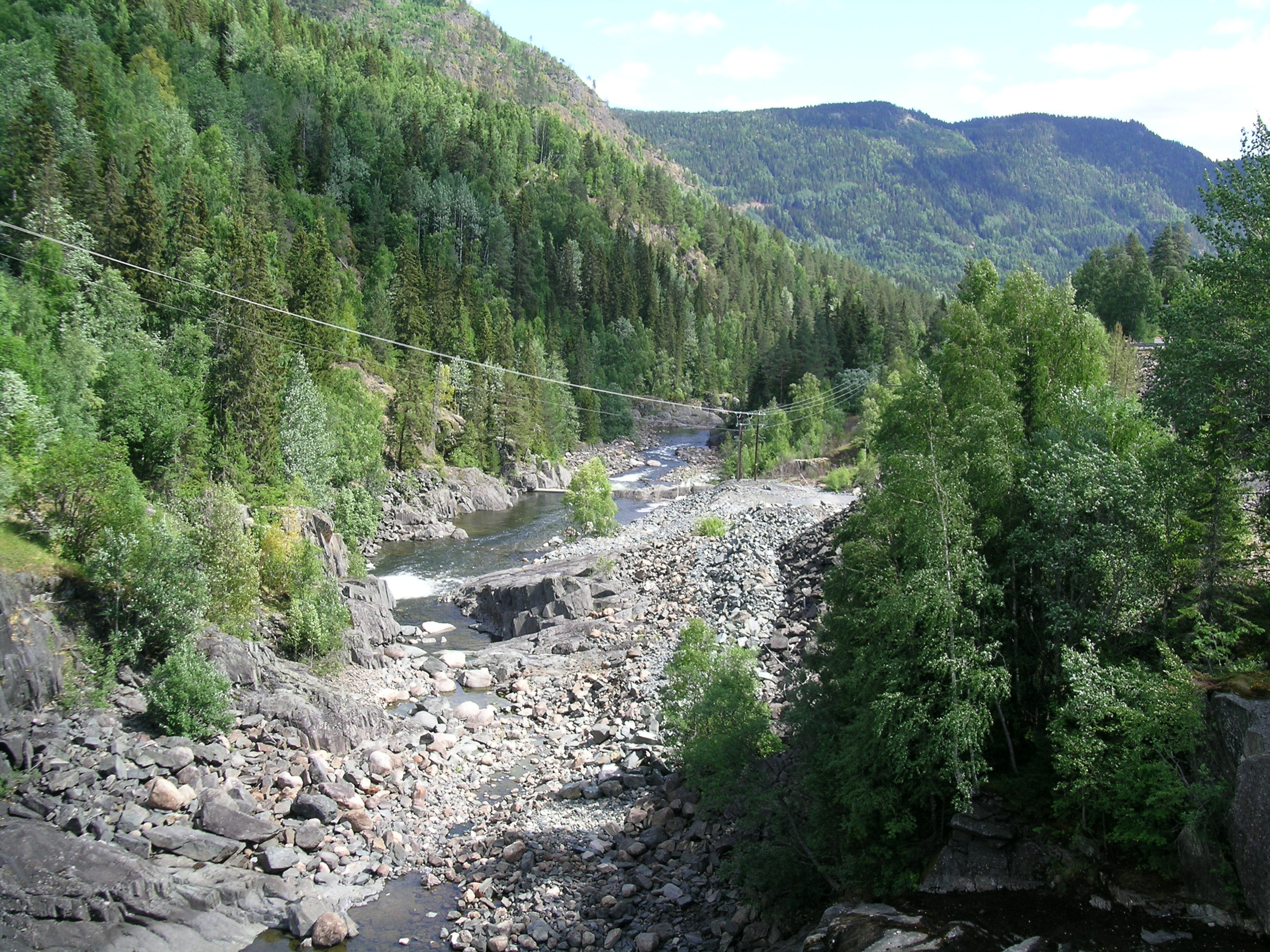 Uvdalselvi downstream Rødberg dam, Nore og Uvdal, Norway.